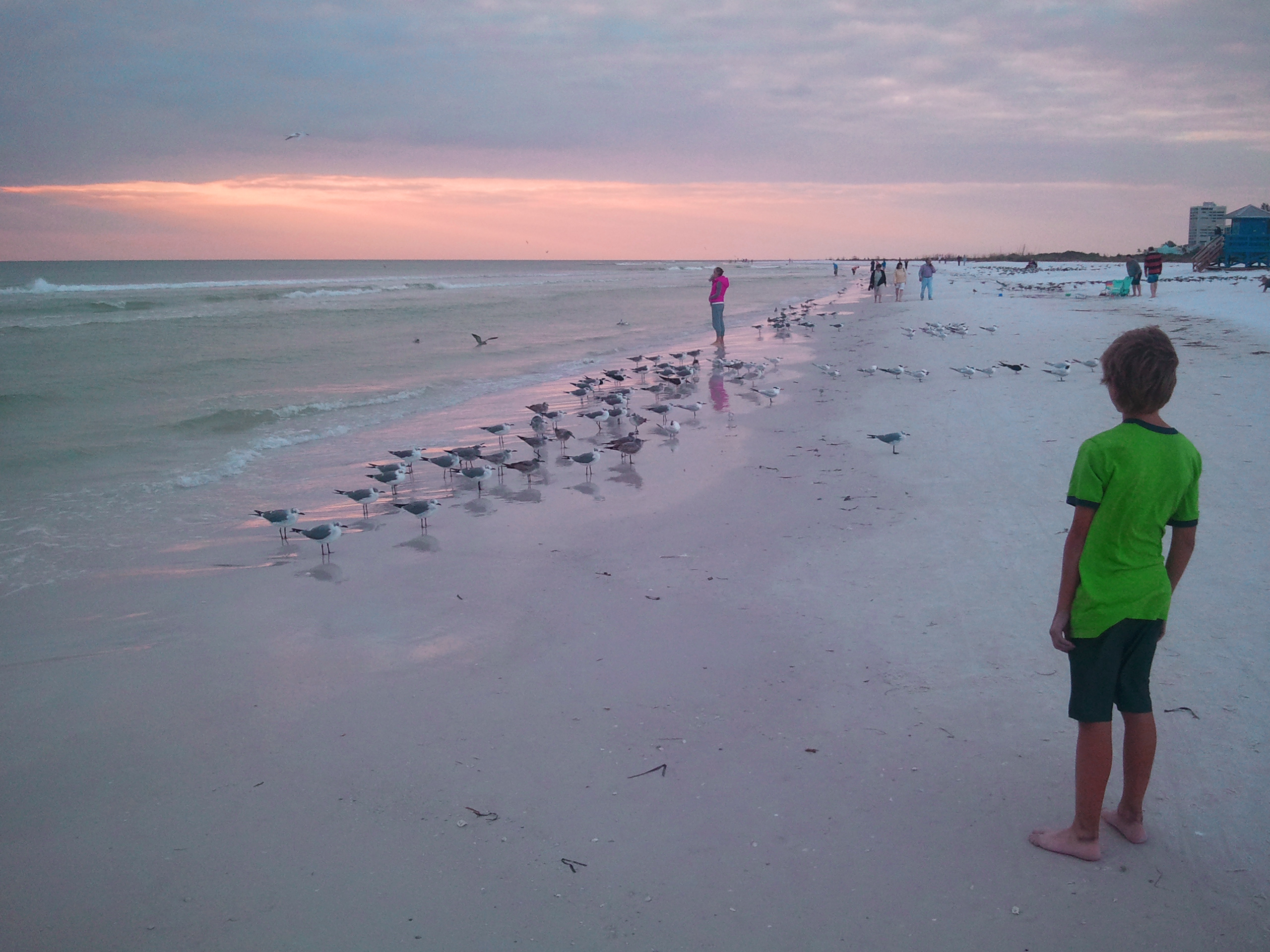 Young boy watching the seabirds along the shore, on Siesta Beach (Siesta Key), at sunset; taken with smartphone on an unusually cold, windy winter day.